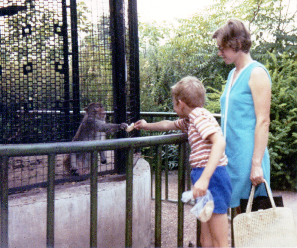 Monkey "Willi" at the former zoo in Schwalbach/Saar